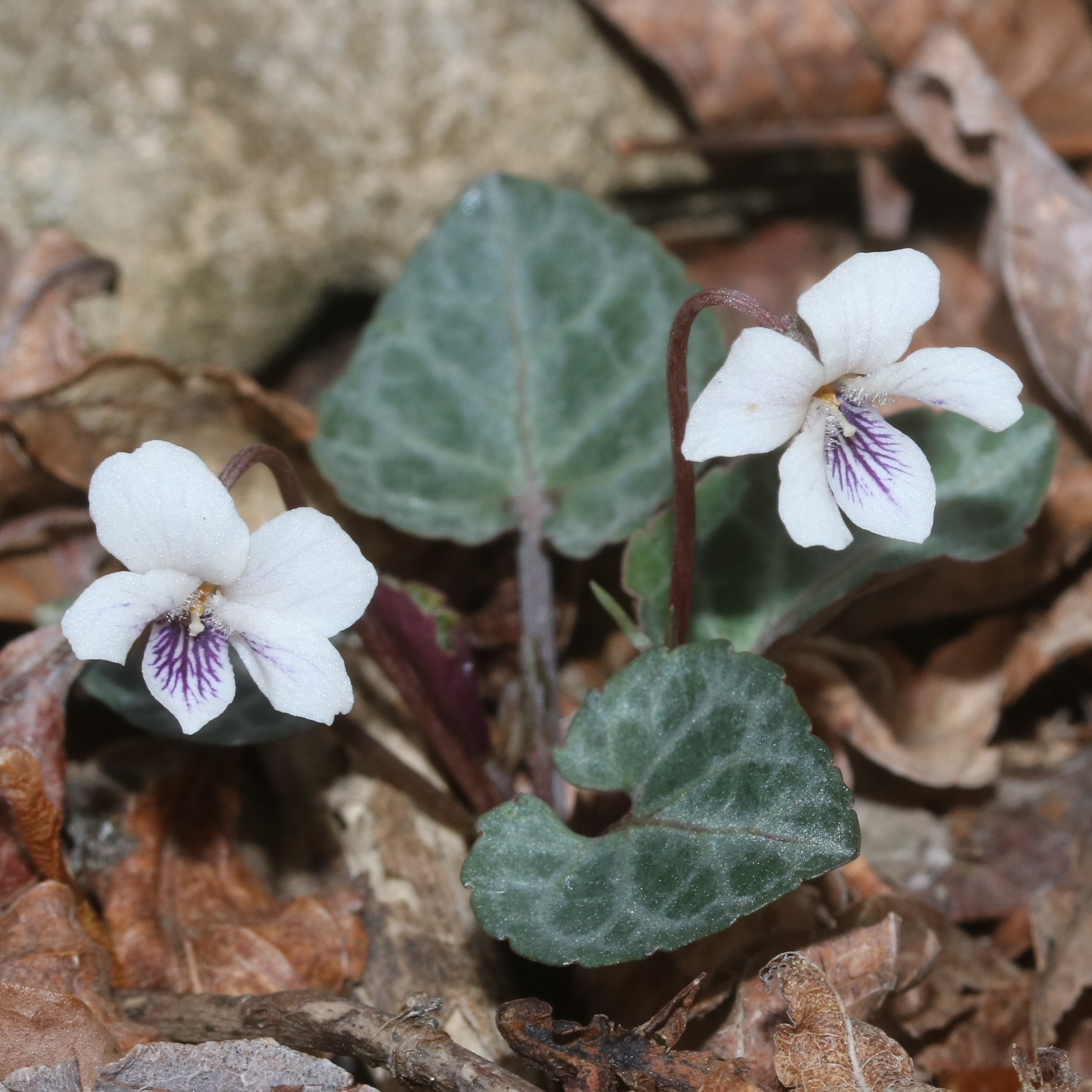 Viola sieboldii in Mount Mikuni, Suzuka Mountains, Ogaki, Gifu Prefecture, Japan.